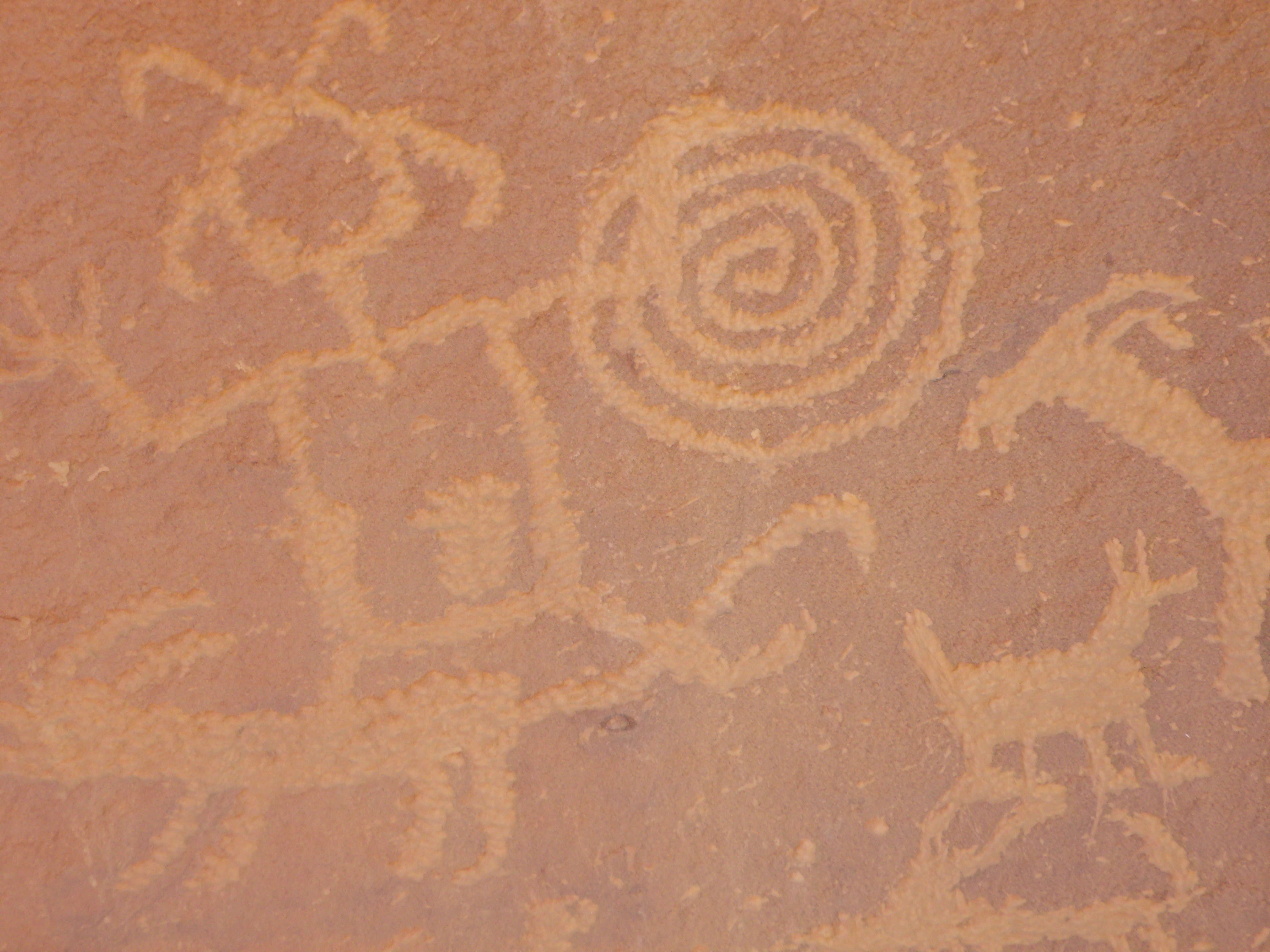 Chaco Culture National Historical Park